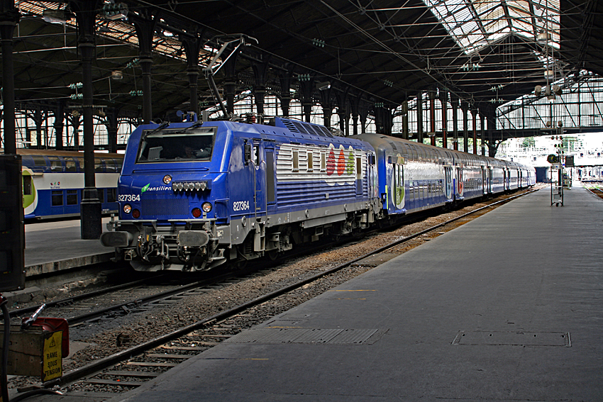 BB 27364 with VB2N push-pull stock at Gare Saint-Lazare with Transilien branding